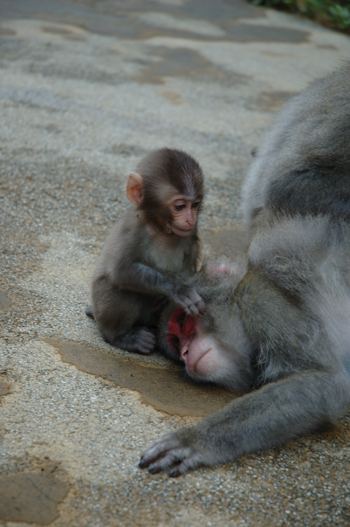 Japanese Macaque baby in Kanba falls